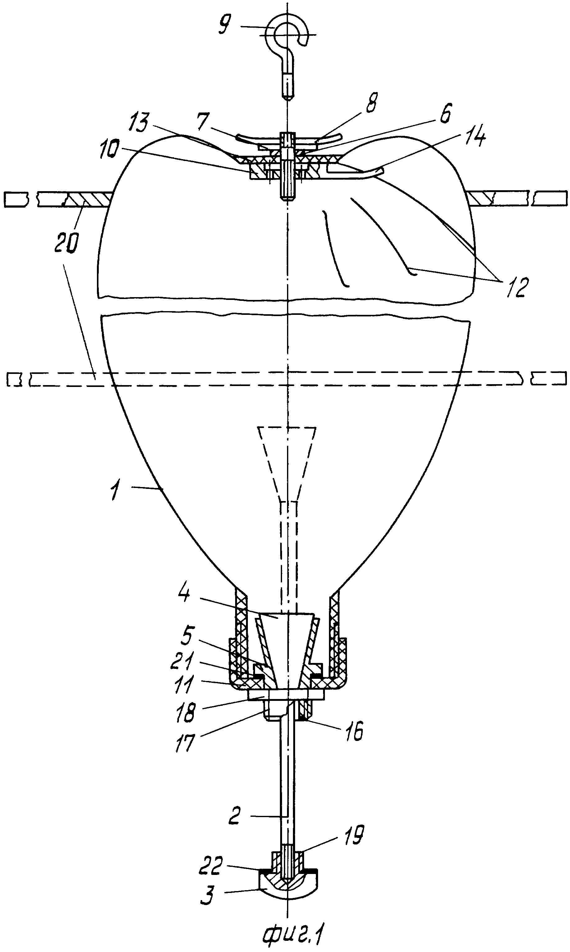 A valve design for the portable lavabo (hanging laver)